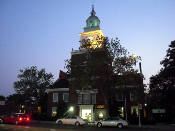 The Queens County Savings Bank on Main St. is a replica of Independence Hall.